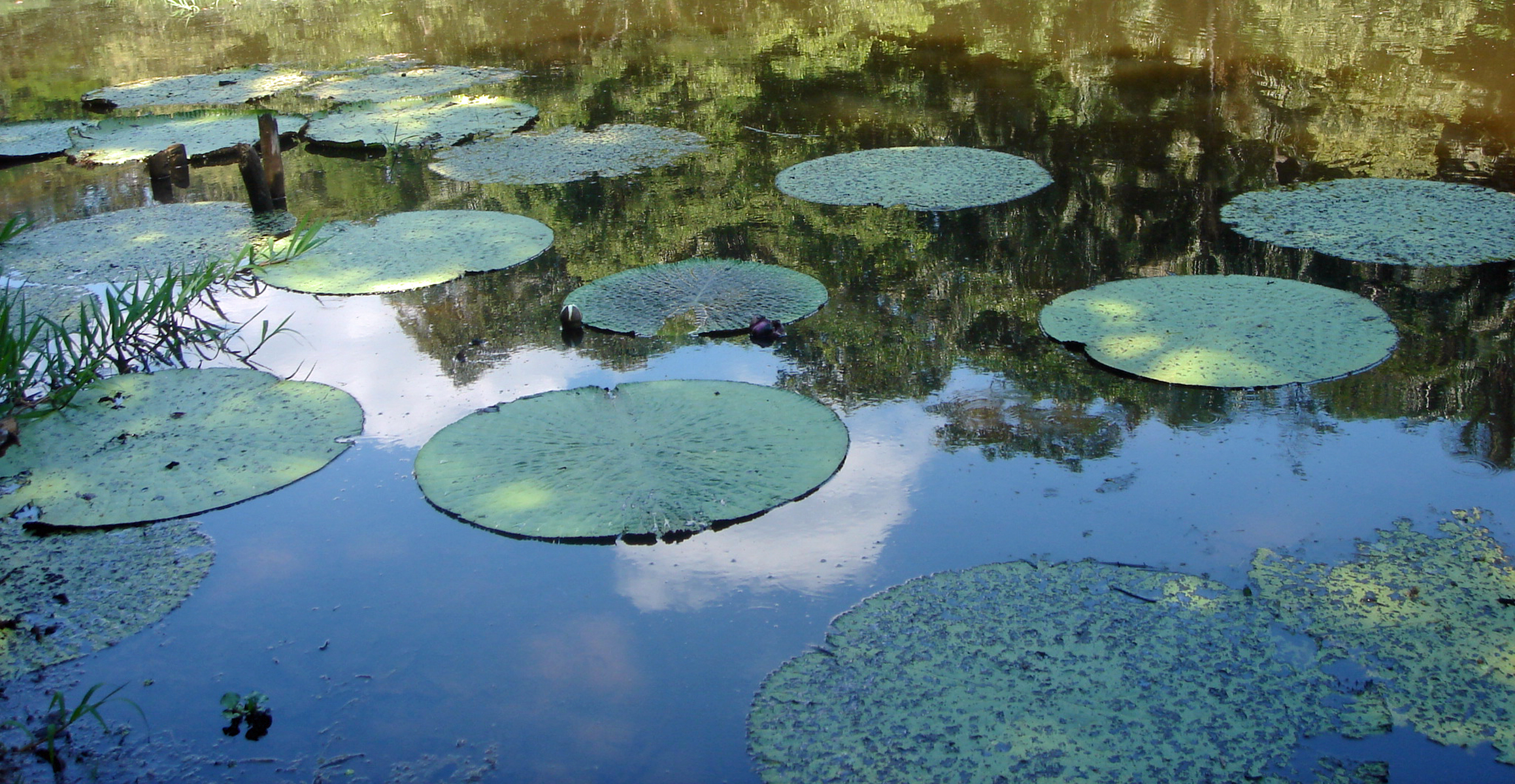 Victoria regia or Victoria amazonica in natura at an tributary creek of the Amazon river, near Manaus, Brazil